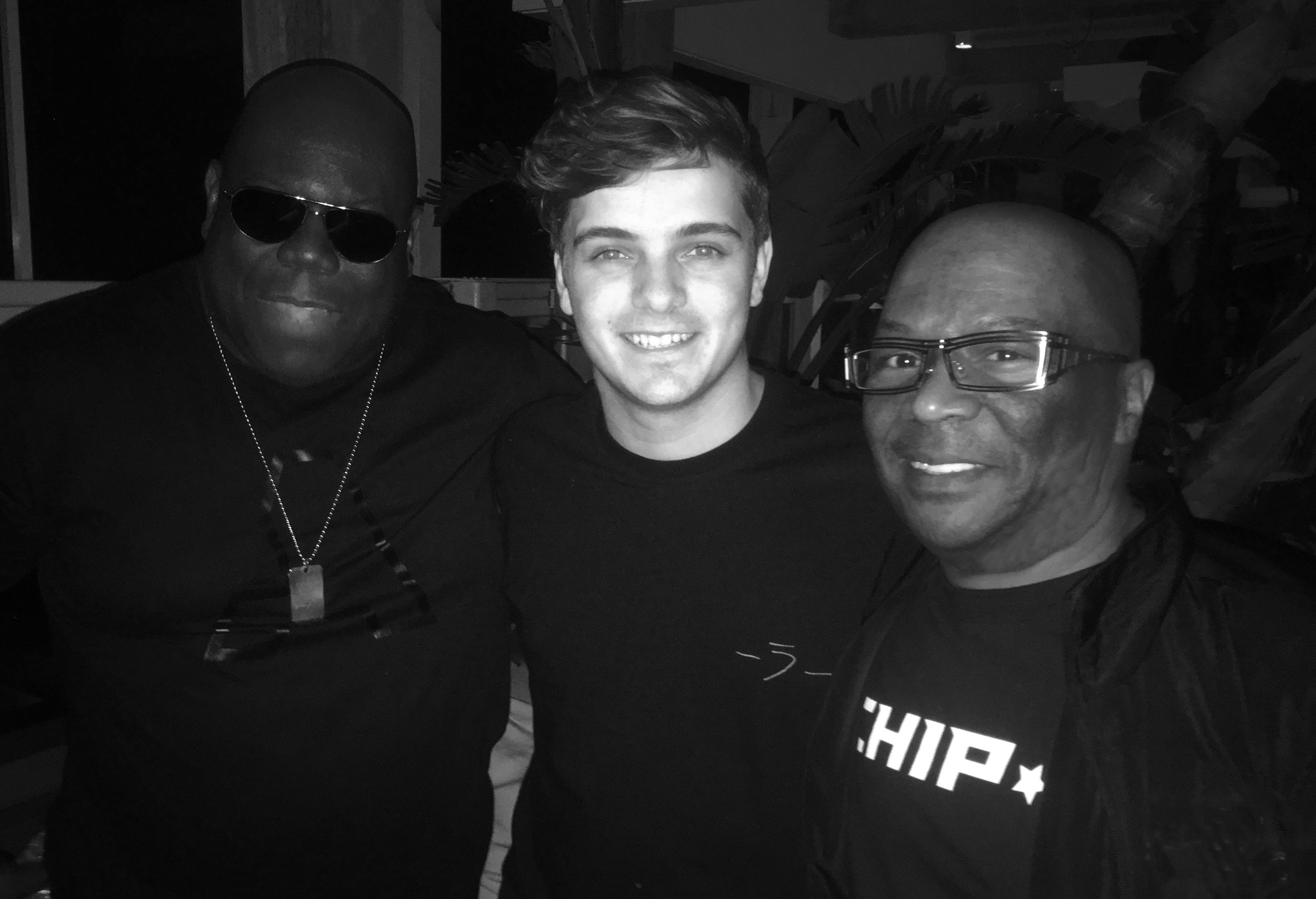 Carl Cox, Martin Garrix and Chip E. in Miami after the release of the film "What We Started" which features the three as well as others.